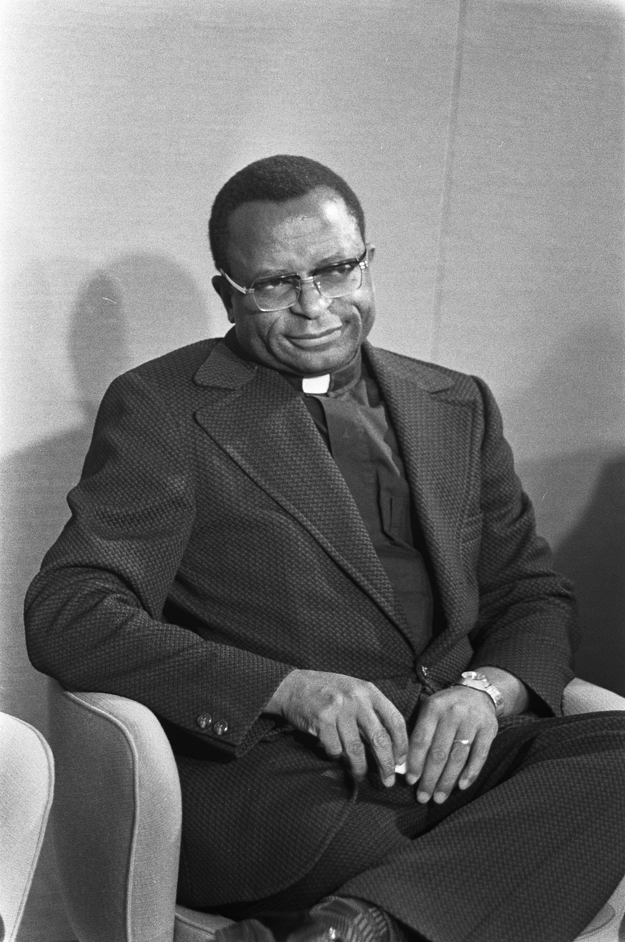 Arrival at Schiphol Airport, Netherlands of Bishop Abel Muzorewa of Rhodesia